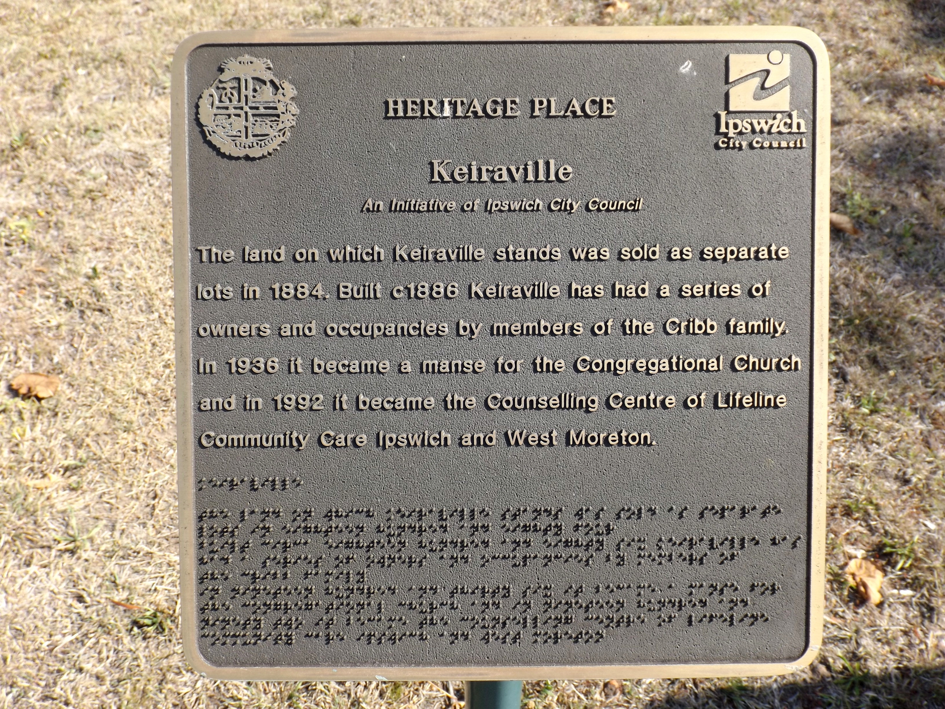 Photo of a plaque at Keiraville in Ipswich, Queensland, Australia.